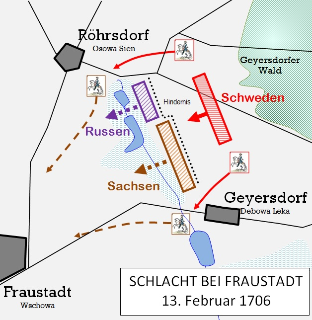 Battle of Blenheim 1706